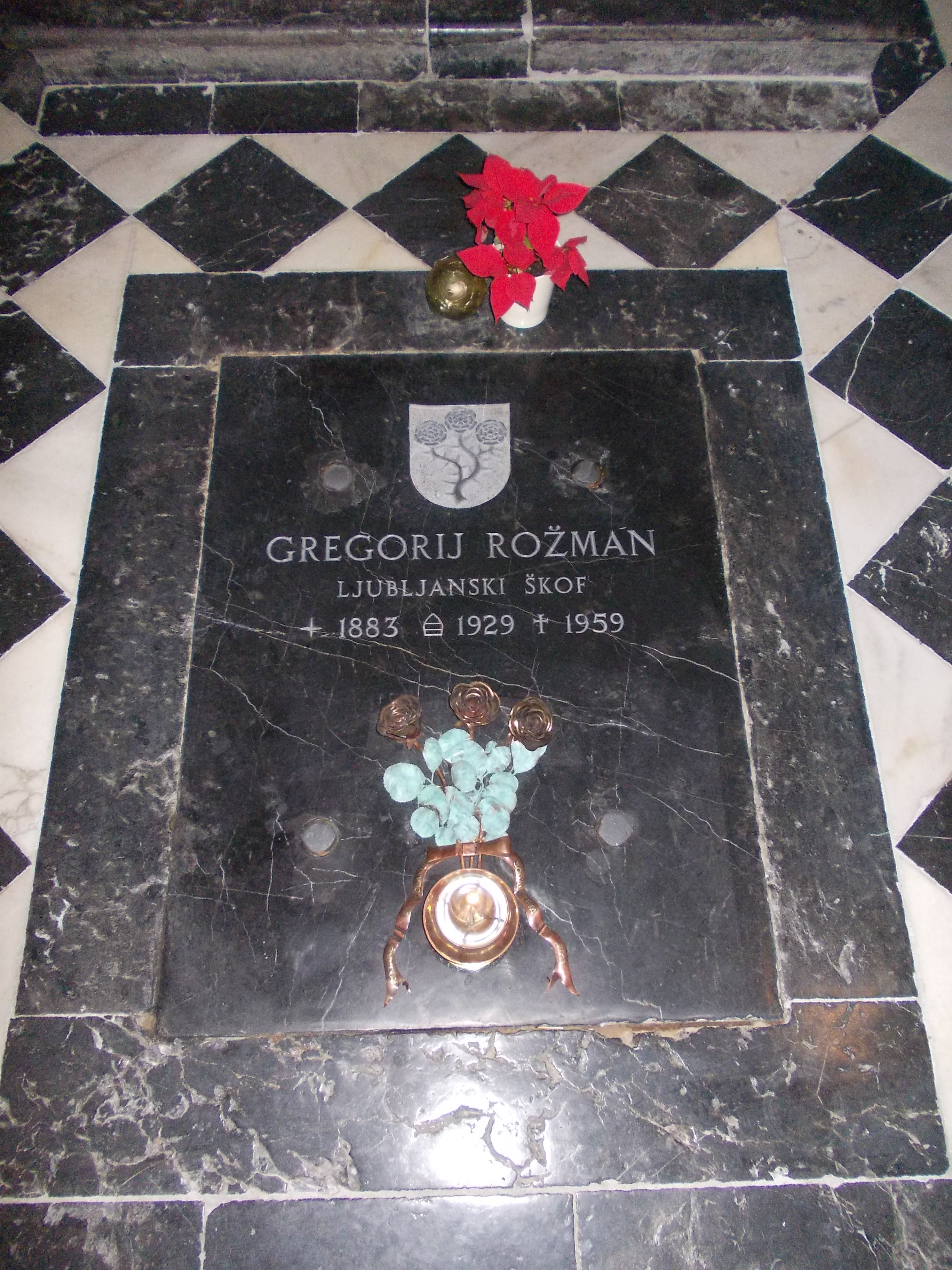 Saint Nicholas churches in Slovenia